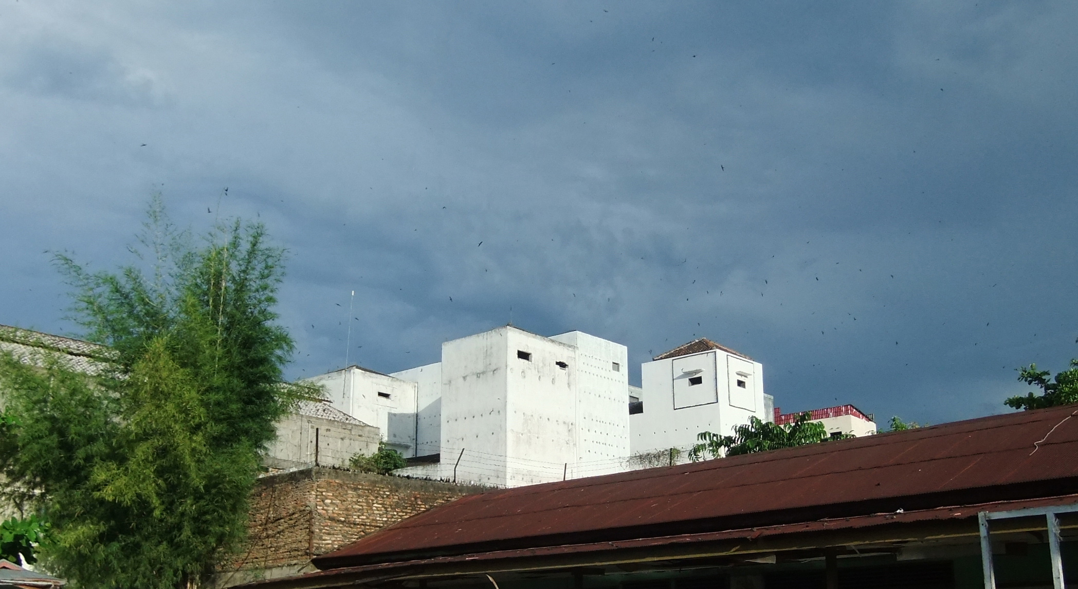 Buildings in Sampit City made especially for swifts. Their nests are for sale.